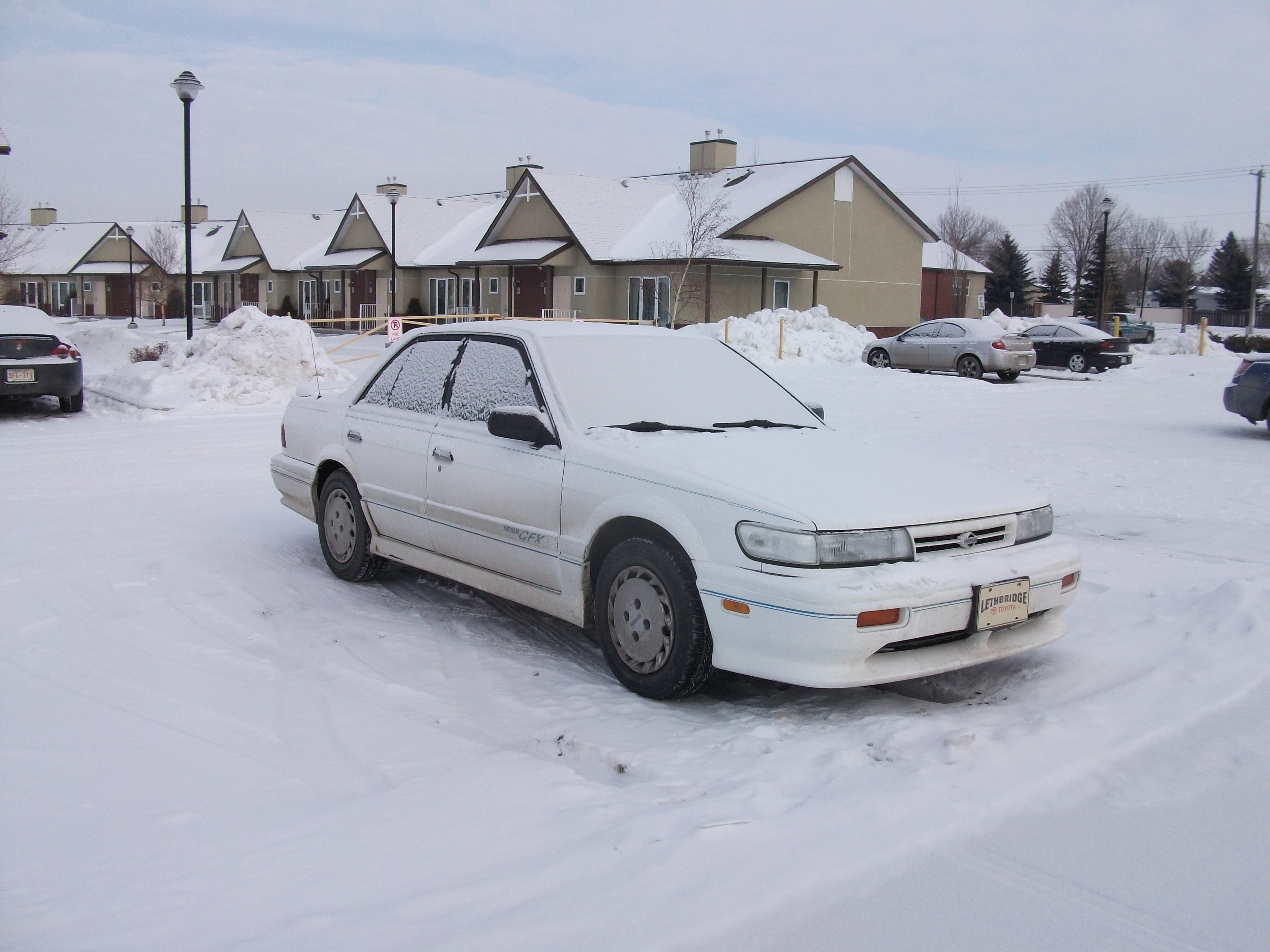 1990-1992 Nissan Stanza XE with the factory GFX package including body kit.